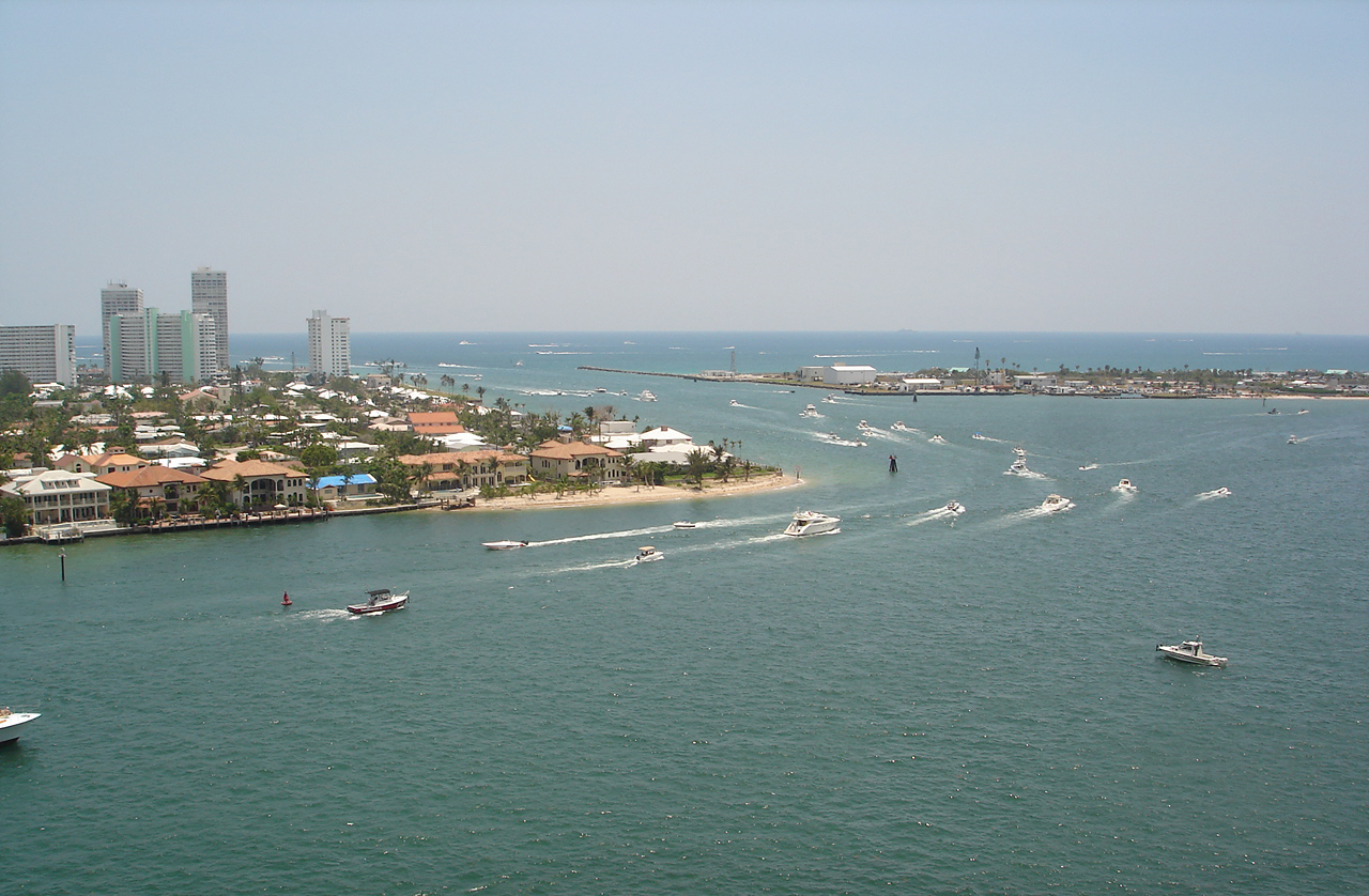 Port Everglades entrance channel and John U. Lloyd Beach Park in Dania Beach, Florida